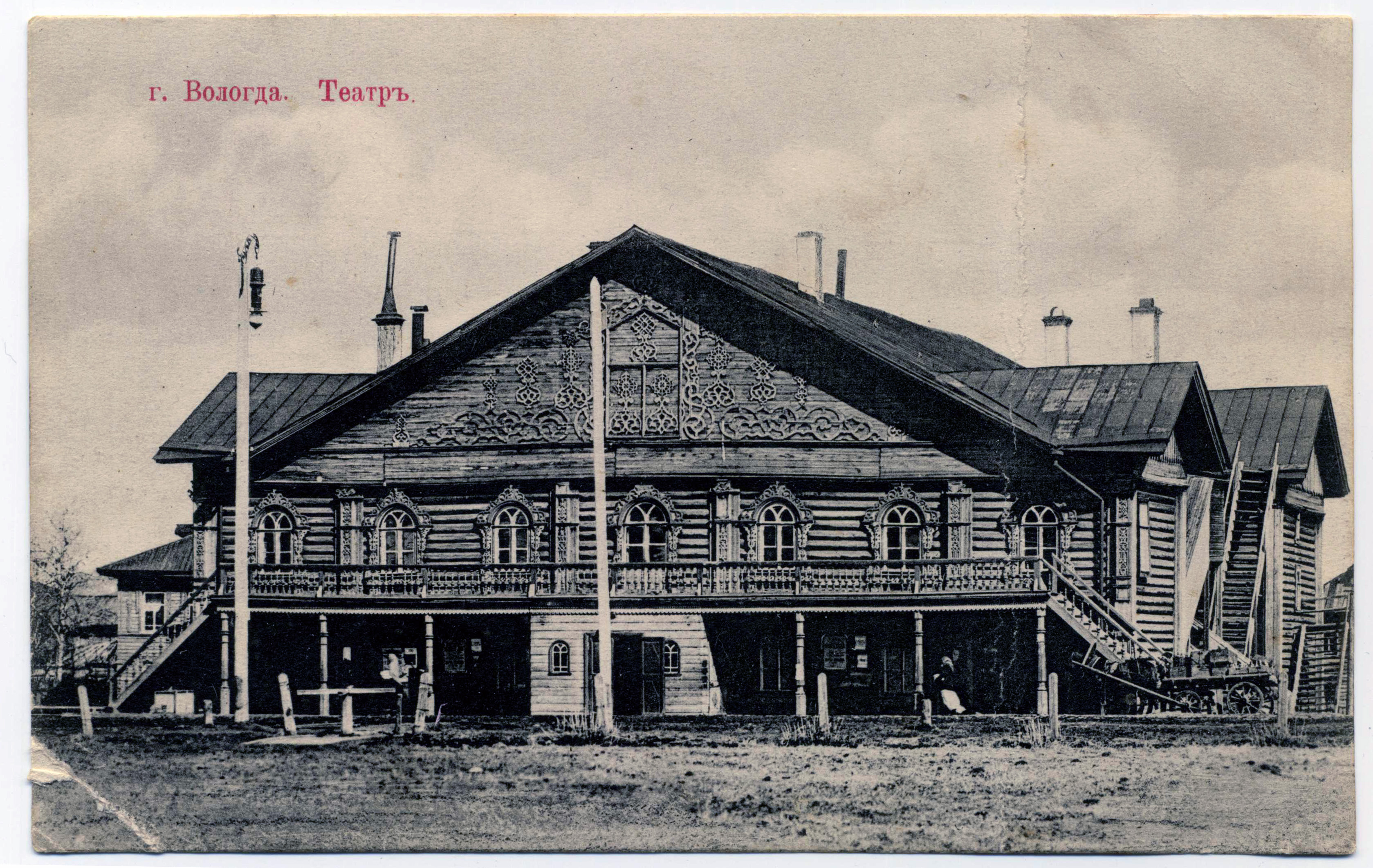 Views of Vologda